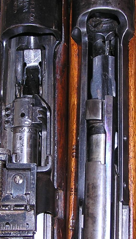 Ross Mk III (1910) and MK II* (1907 - Commercial Target) actions